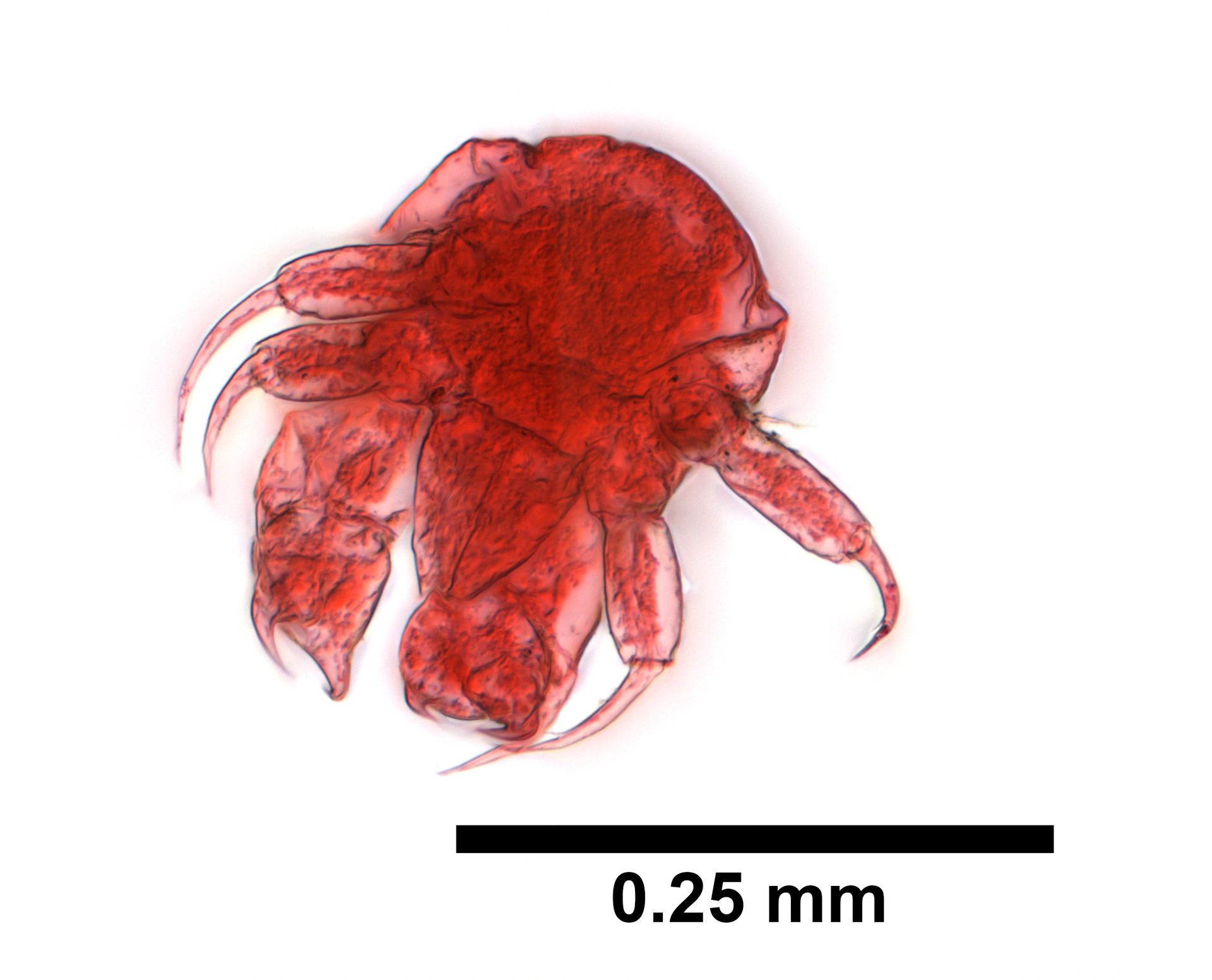 PRESERVED_SPECIMEN; ; JUVENILE; microslide; Det. by: L. R. McCloskey; GM Image; Gray Museum; IZ number 77366; lot count 7; Microslide 01, balsam, whole mount; juvenile; original catalog number YPM 30235; original catalog number GM 975; 1970-08-20T00:00:00Z